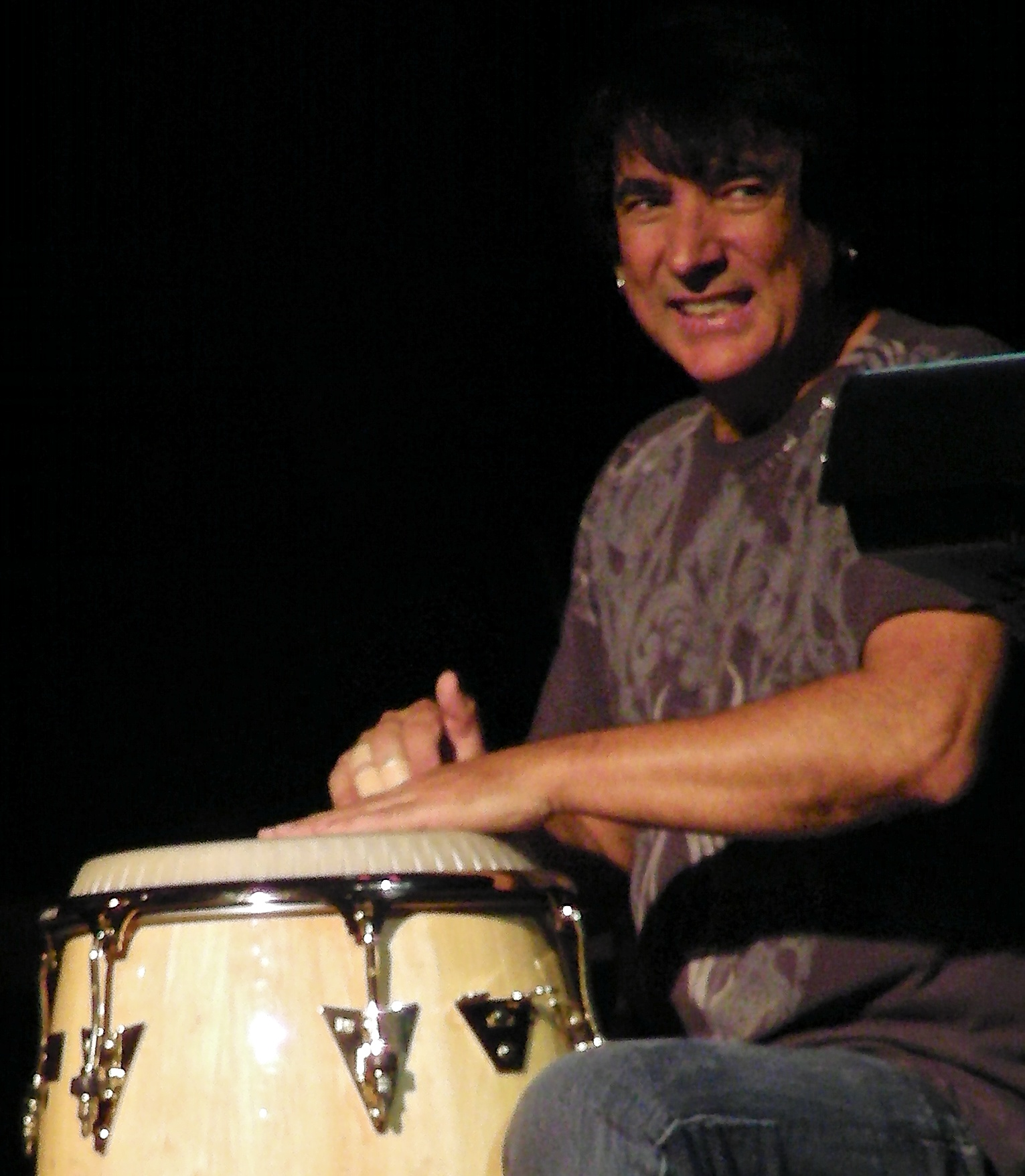 Portrait of Walfredo Reyes, Jr. at a Chicago concert at the Stiefel Theatre in Salina, Kansas